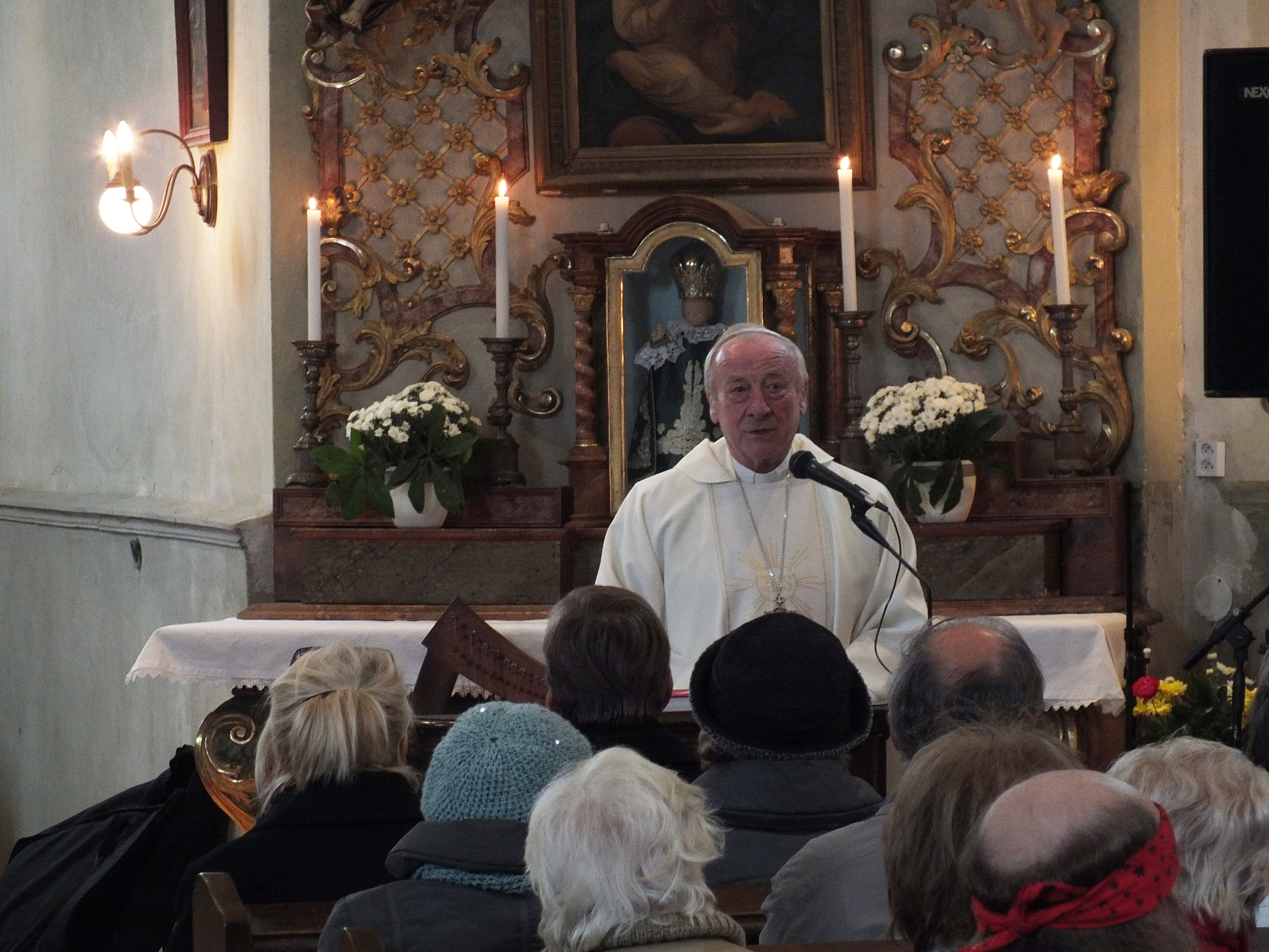 P. Michael Josef Pojezdný, O.Praem., during celebration of the 300th anniversary of the St. Peter and Paul church in Slapy 22th October 2016